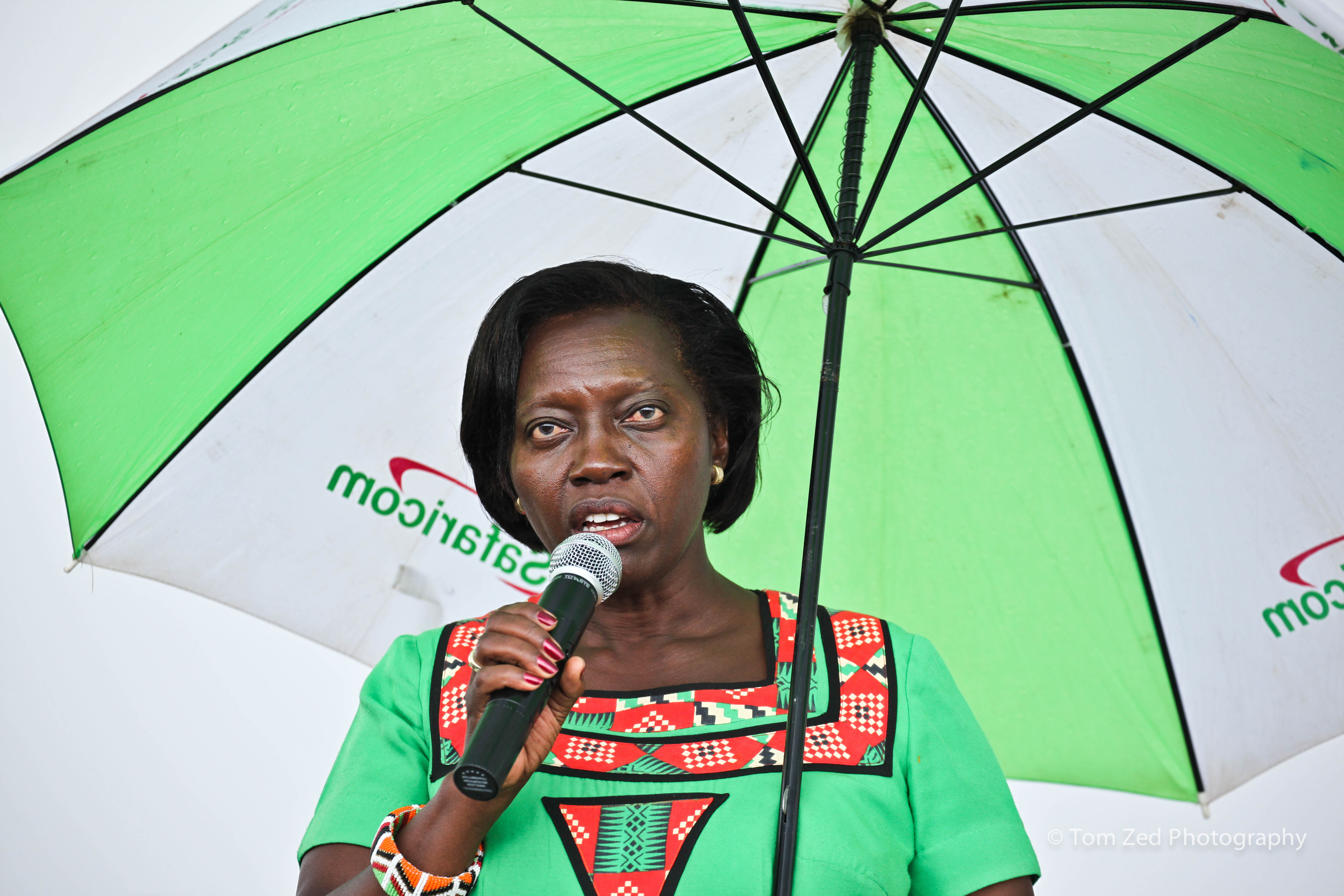 Kenyan Presidential candidate, Martha Karua, campaigning near Kisumu